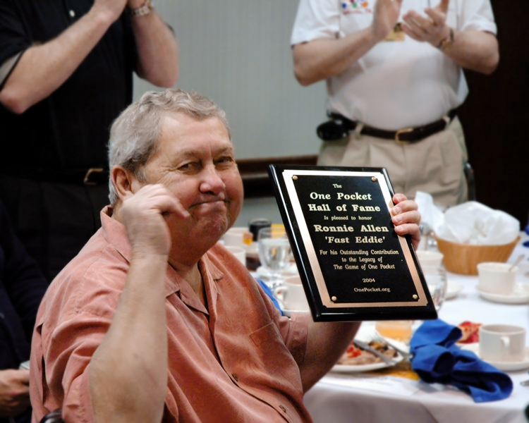 Ronnie "Fast Eddie" Allen accepting his 2004 One Pocket Hall of Fame Award. Other information Steve Booth is the webmaster and owner of and also owns the One Pocket Hall of Fame. He could not upload this photo to Wikipedia and asked me to do it for him. There are no restrictions on this photo. He wants it in this article and gave me permission to do so.